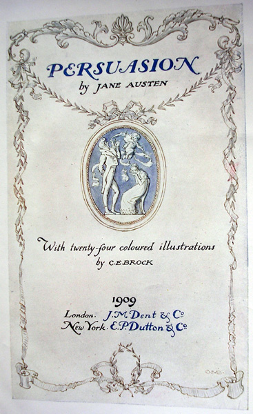 Title Page od Persuasion by Jane Austen, with 24 coloured illustrations by C. E. Brock